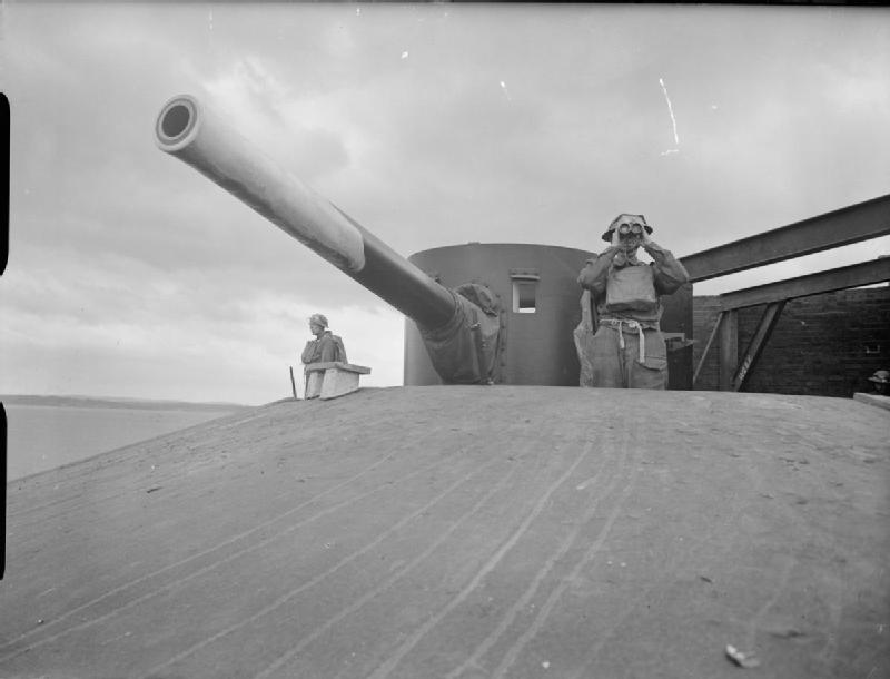 Sentries on duty near one of the 6-inch guns on Horsesands sea fort, in the eastern Solent, one of three guarding the approaches to Portsmouth harbour.